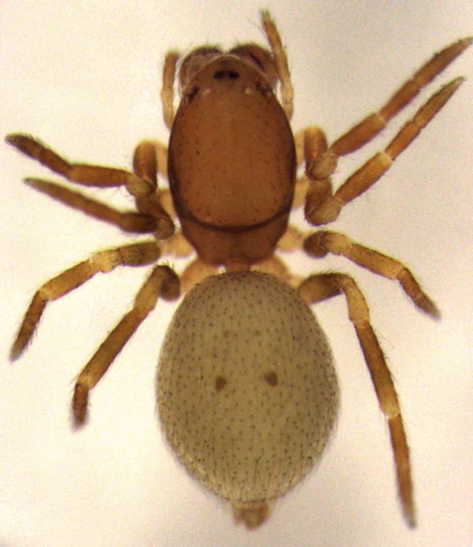 Pararchaea alba (female, length about 2 mm)